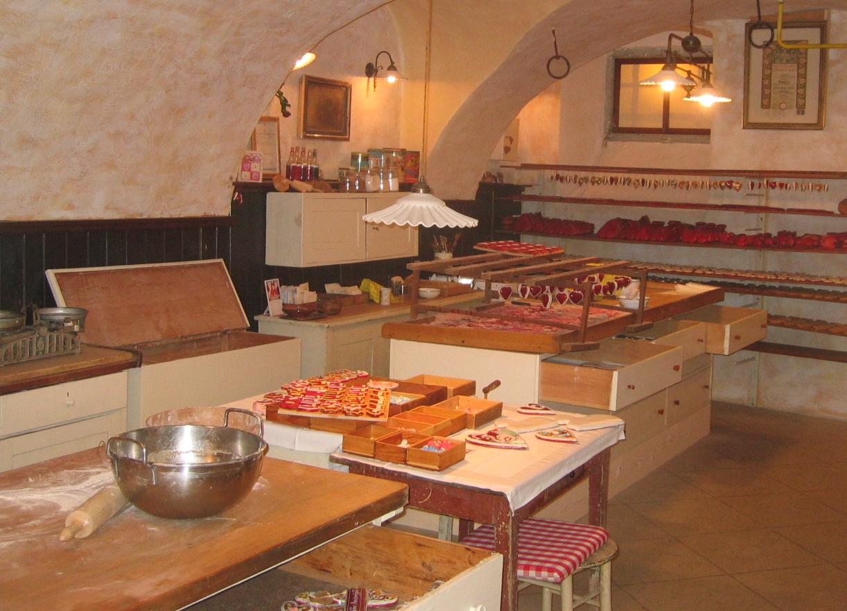 Lect manufacture (similar to gingerbread), in Radovljica, Slovenia (sweets for decoration - after few days not edible) photo:Ziga 09:25, 26 February 2007 (UTC)